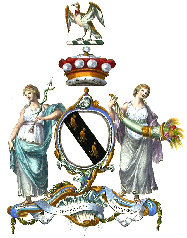 Source: English Peerage, Charles Catton 1790